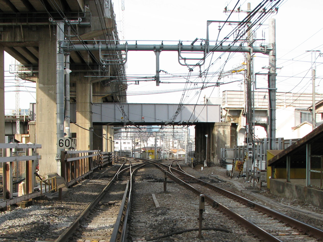 Hebikubo Signal Station, JR East Yokosuka Line (Tokaido Main Line - Hingaku Line)